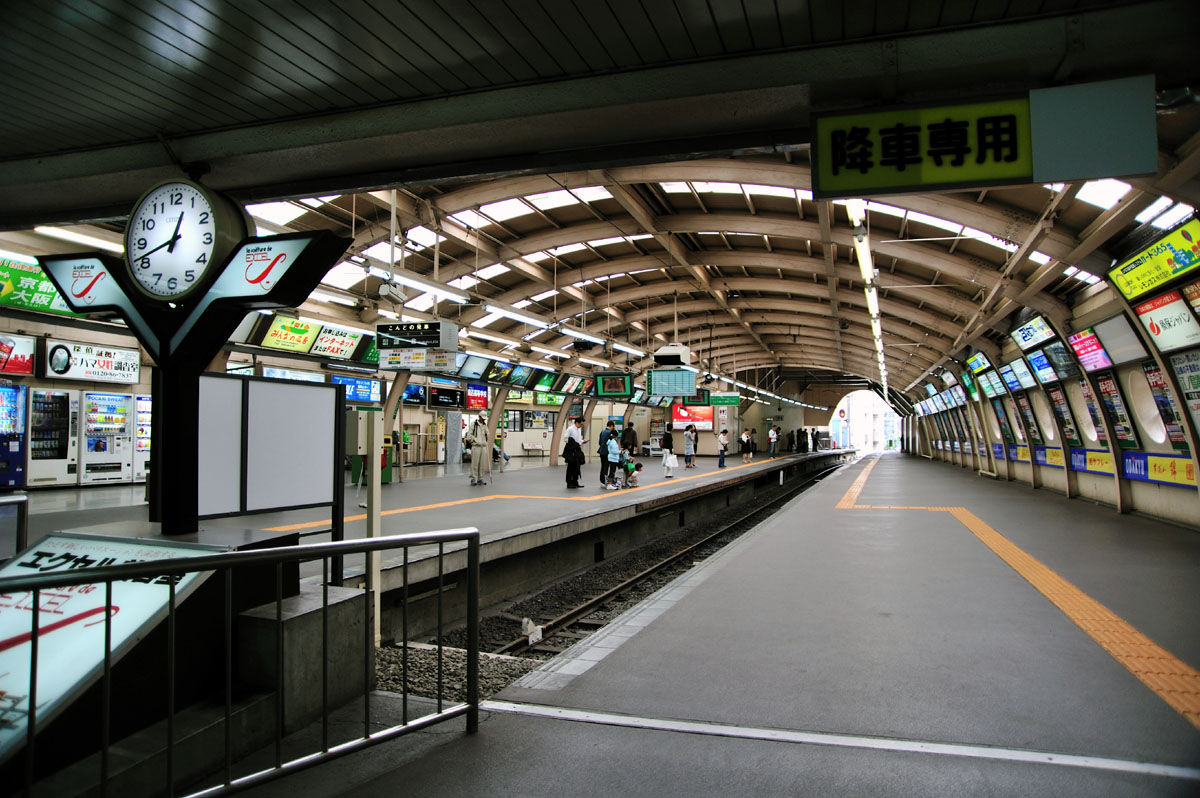 The bay platform inside Fujisawa station of Enoshima Electric Railway